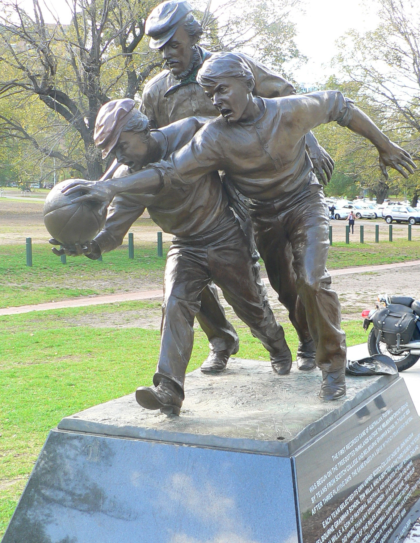 Statue by Louis Laumen at the Melbourne Cricket Ground of Tom Wills umpiring the first recorded match of Australian rules football between Melbourne Grammar School and Scotch College on 7 August 1858.